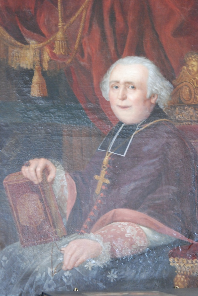 Antoine de Morlhon Archbishop of Auch